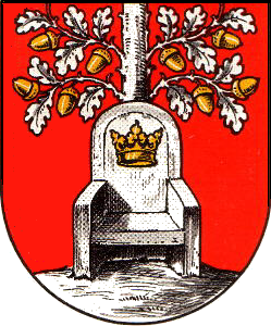 Coat of Arms of Eime. In Rot auf silbernem Boden ein hergewendeter silberner Steinsitz mit seitlichen Wangen und hoher gerundeter Rückenlehne mit einer goldenen Königskrone darin. Hinter dem Sitz ragt ein bis zum Ansatz der Zweige sichtbarer silberner Eichbaum mit silbernen Blättern und goldenen Eicheln hervor.